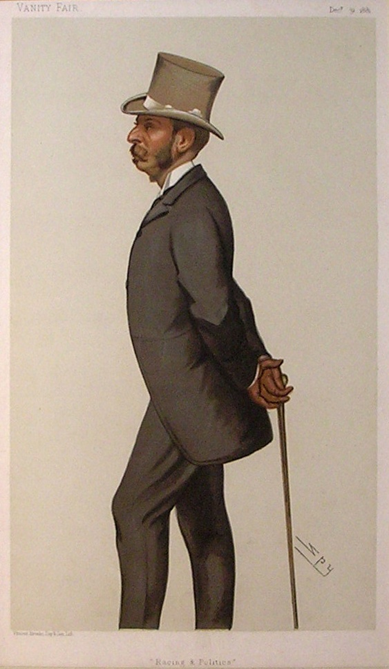 Caricature of The Hon. Algernon William Fulke-Greville. Caption read "Racing & Politics".